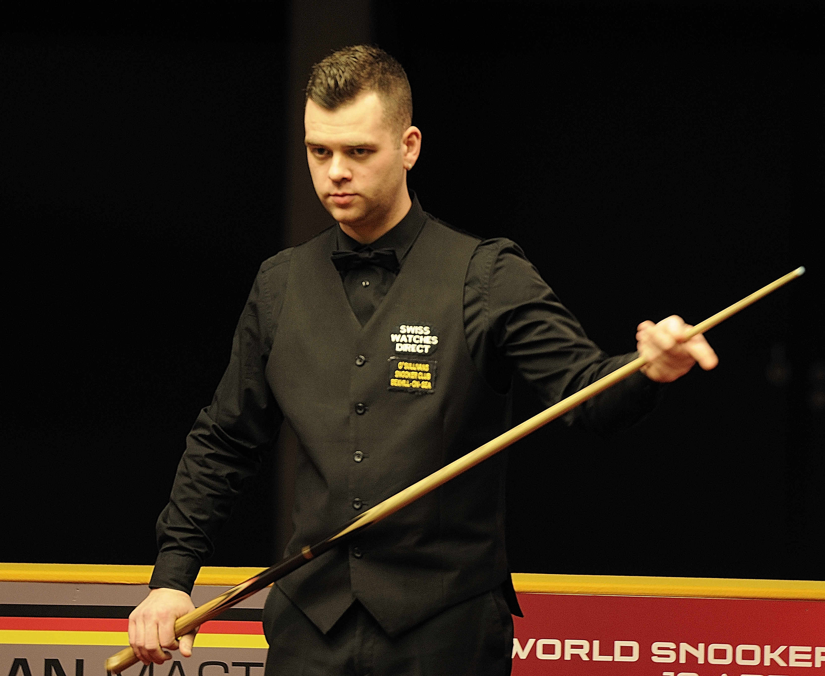 Picture taken in Berlin during the Snooker German Masters in 2014. Jimmy Robertson.